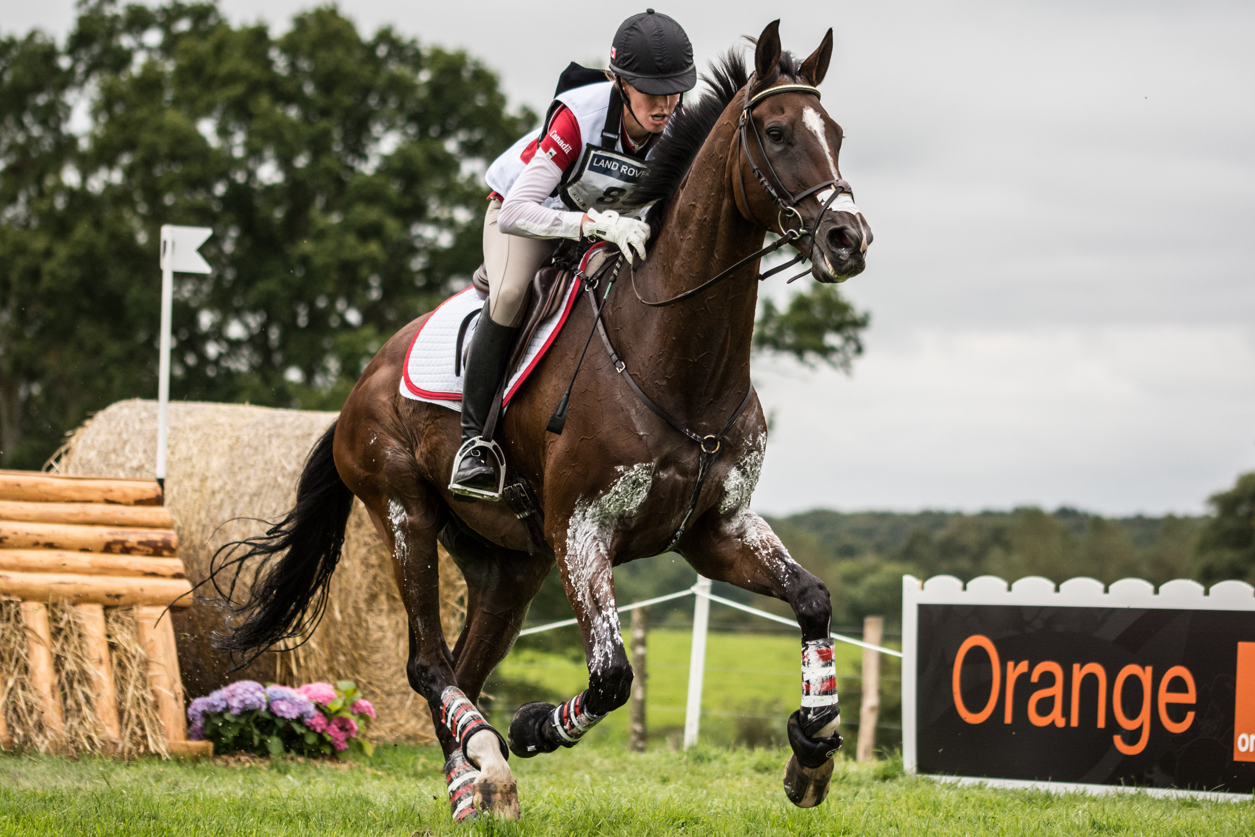 Selena O'HANLON (CAN) - FOXWOOD HIGH, AllTech FEI World equestrian games 2014 in Normandy - Cross-country phase of Eventing at Haras du Pin